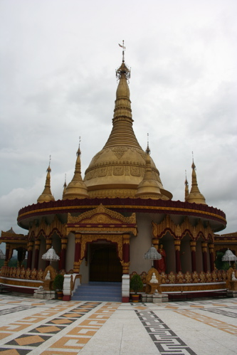 A sight rarely seen on plain land - a Buddhist temple (in Bandarban). Most Hill Tribes people are either Buddhists or animists. Bandarban, Bangladesh